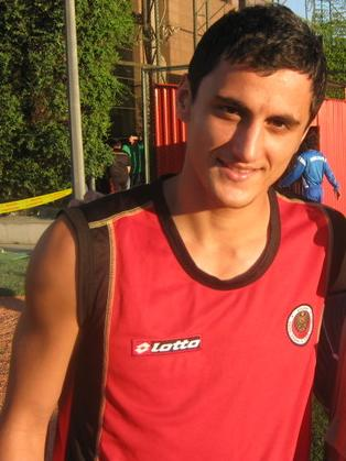 Mustafa Pektemek, Turkish footballer